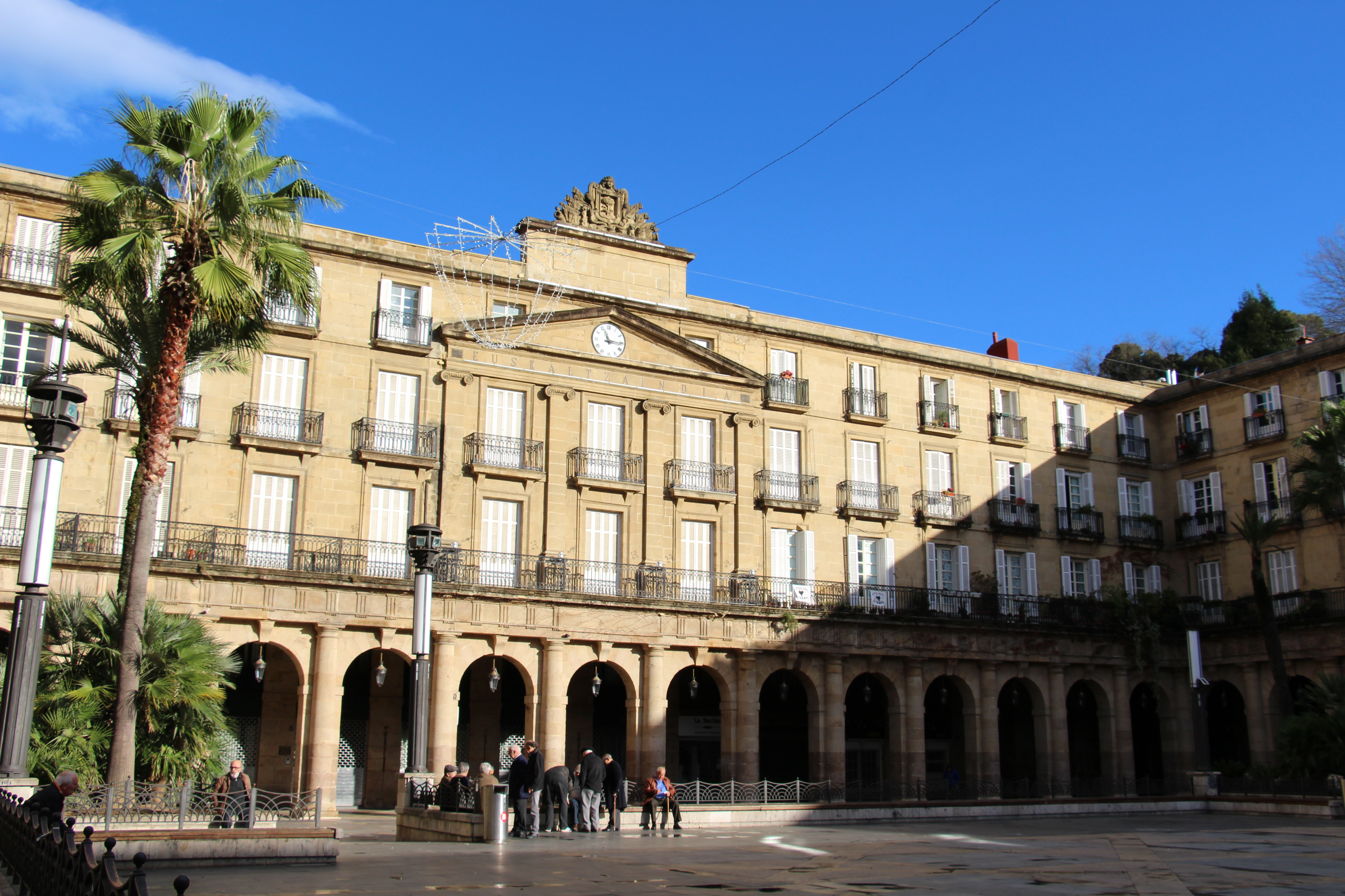 (Zazpi Kaleak) Plaza Barria Royal Academy of the Basque language in roman neoclassical style, around 1850.